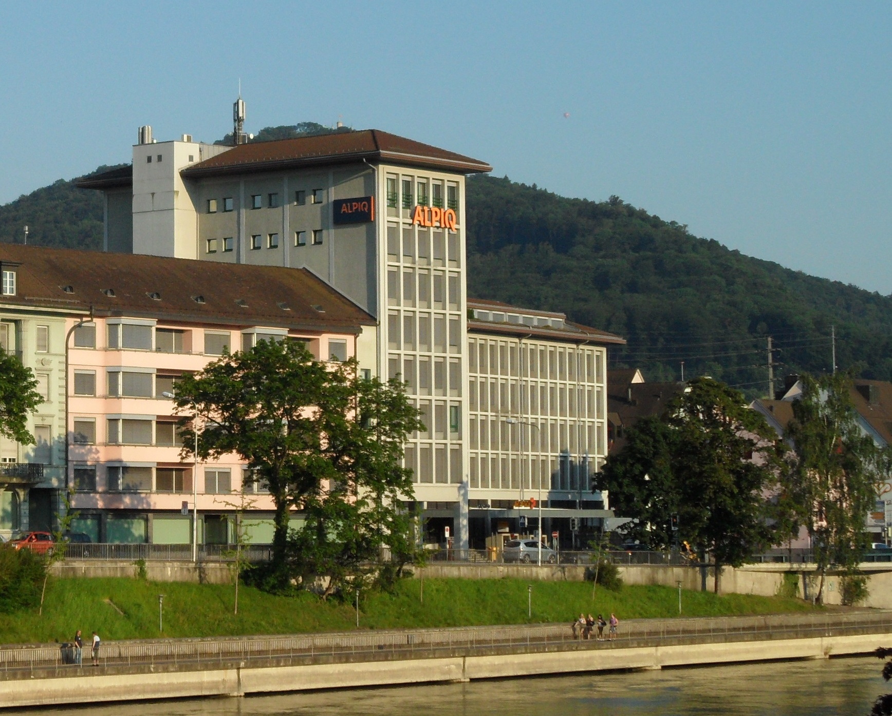 Alpiq (formerly Atel) building at the river Aare in Olten, canton of Solothurn, Switzerland.